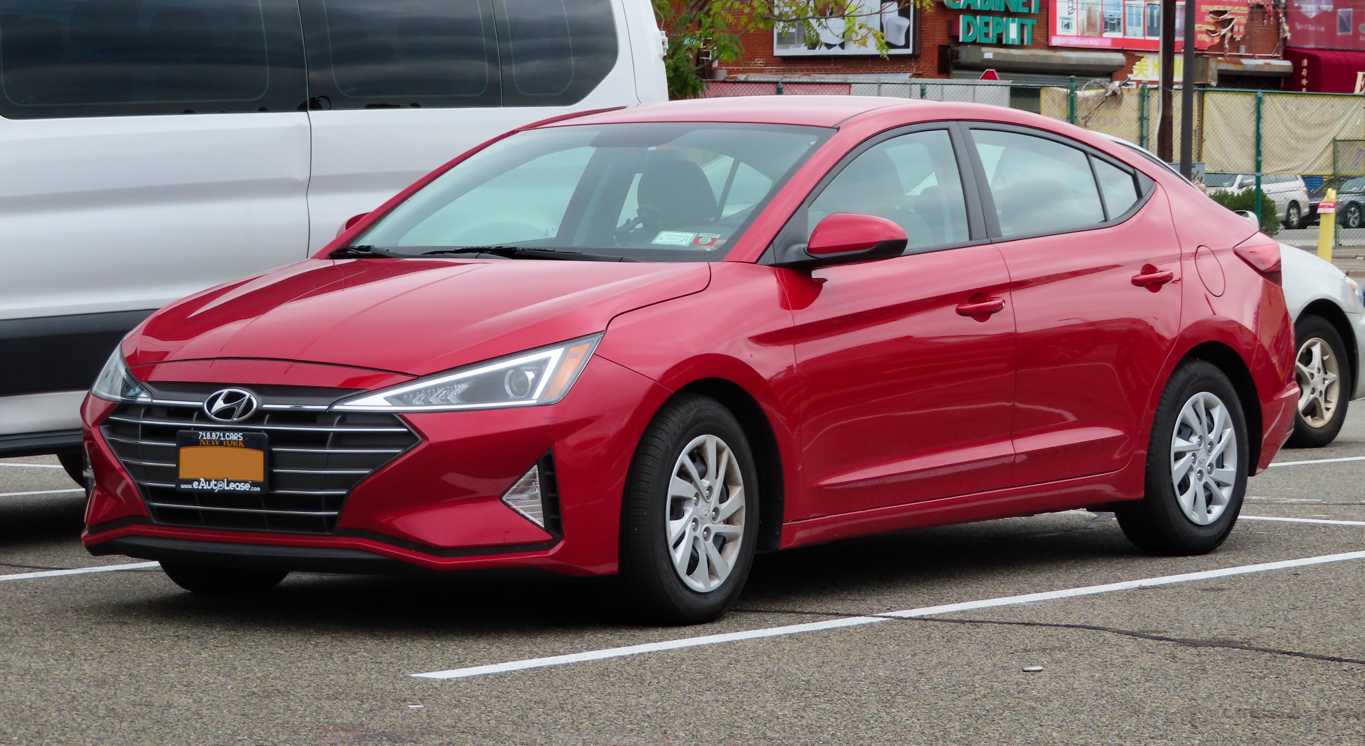 A 2019 Hyundai Elantra SE photographed in Flushing, Queens, New York, USA